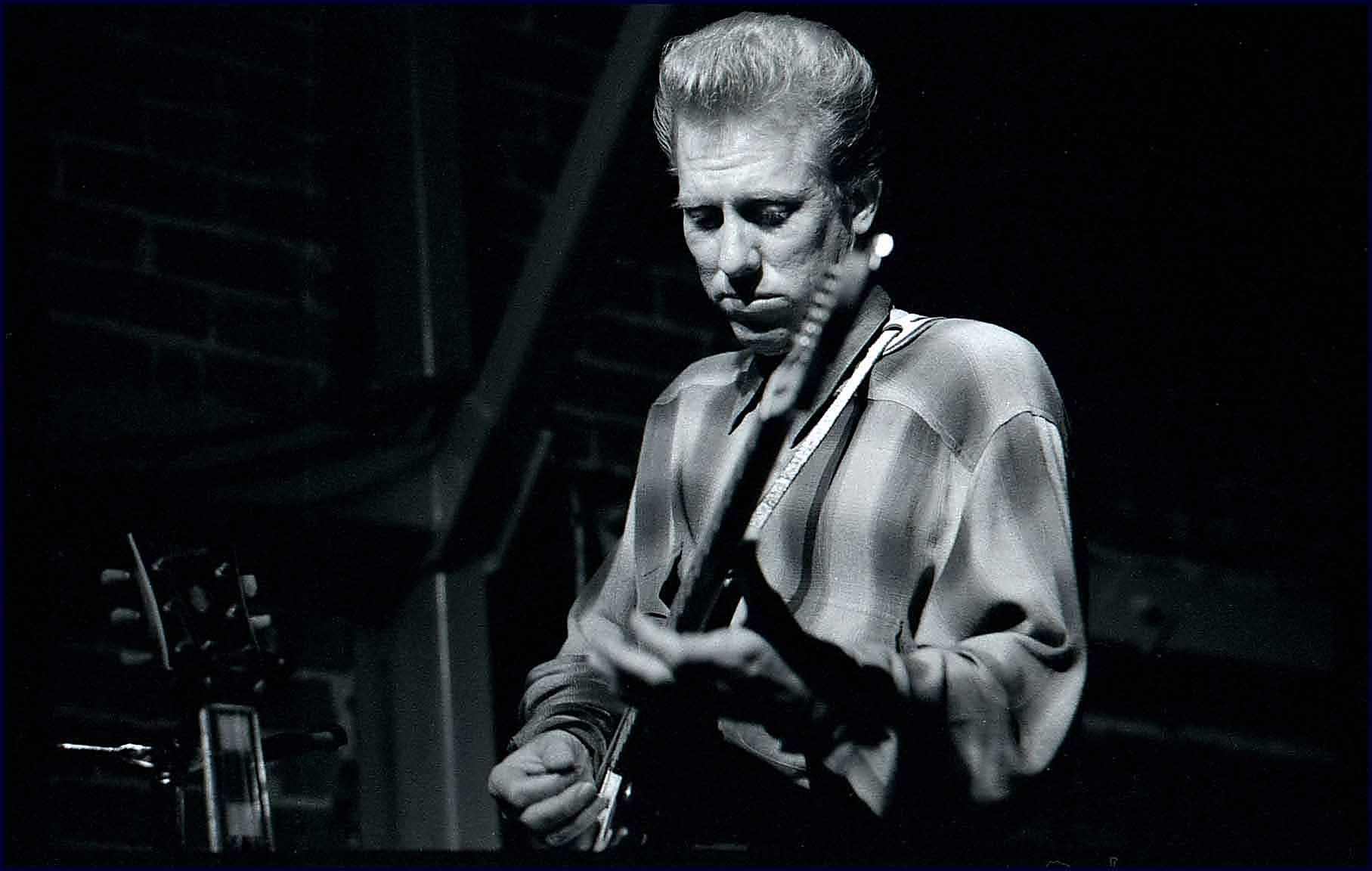 Anson Funderburgh performing in 1976 [Editor: photo appears to be much more recent than 1976]